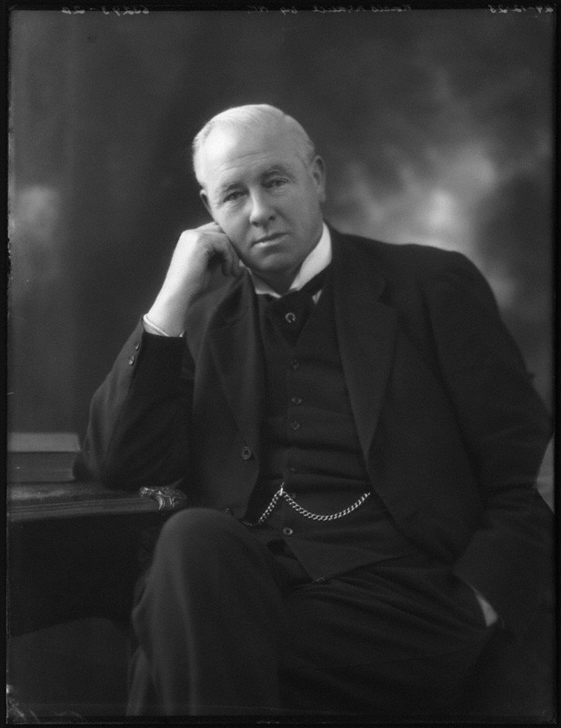 Portait of Ronald McNeill, 1st Baron Cushendun